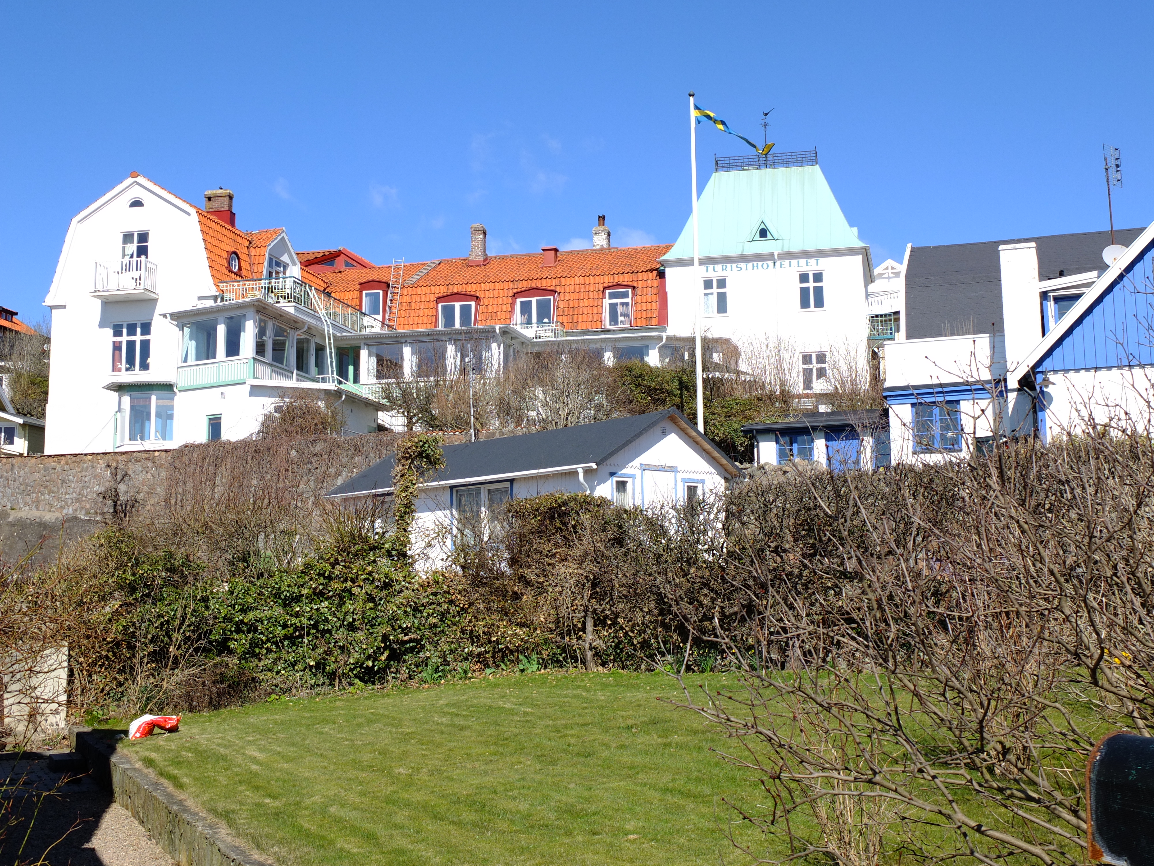 The former hotel "Turisthotellet" in Mölle, Sweden